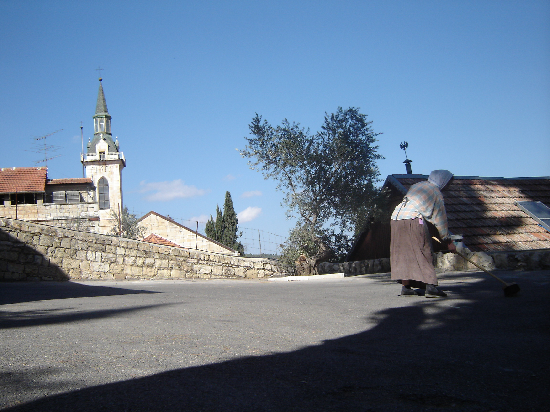 Wiping away the darkness in the Russian Monastery Gorny near Ein Kerem, Jerusalem